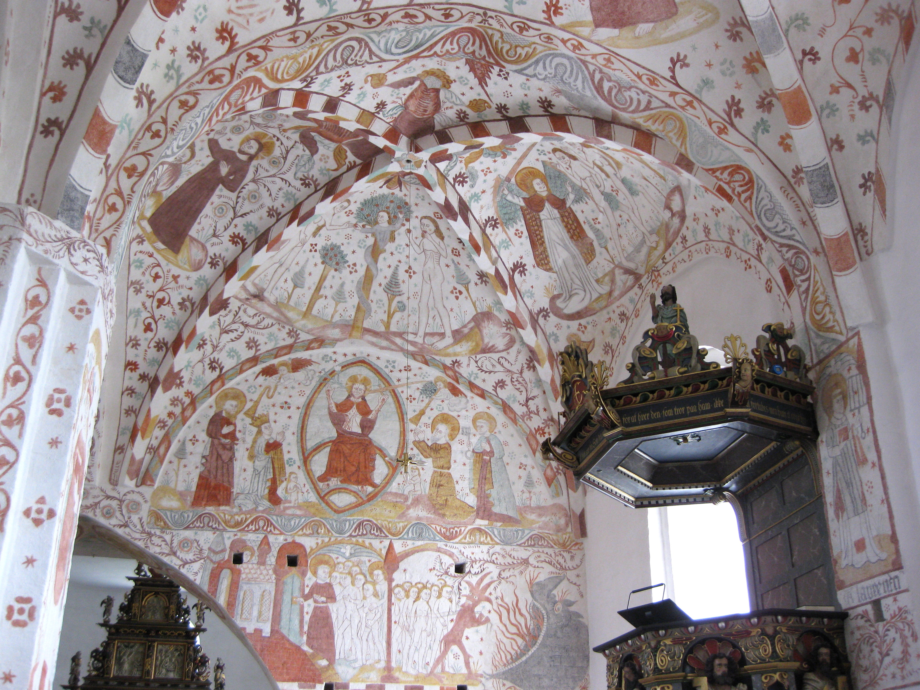 Frescos of the church "Fanefjord Kirke" on the island Møn. The island is located south of Zealand in east Denmark.